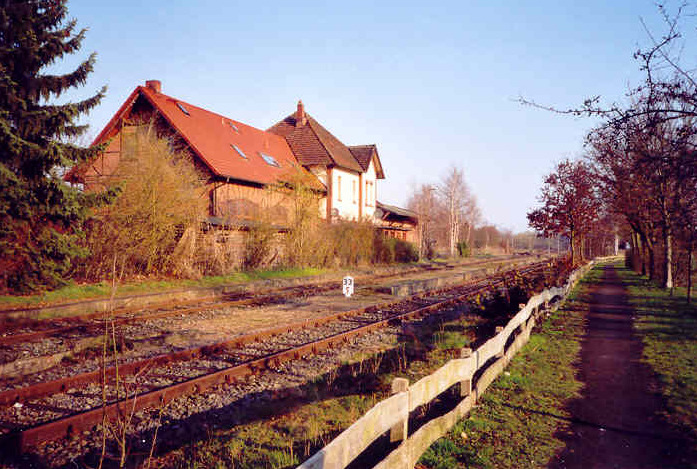 The train station in Uchte is still used by the heritage railroad Rahden - Uchte on some weekends.